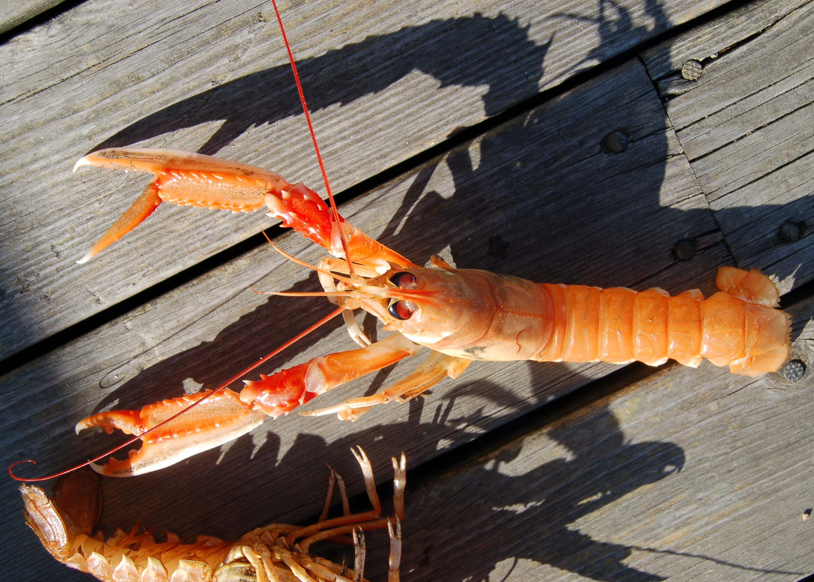 The Norway lobster - Nephrops norvegicus - Stavern, Norway